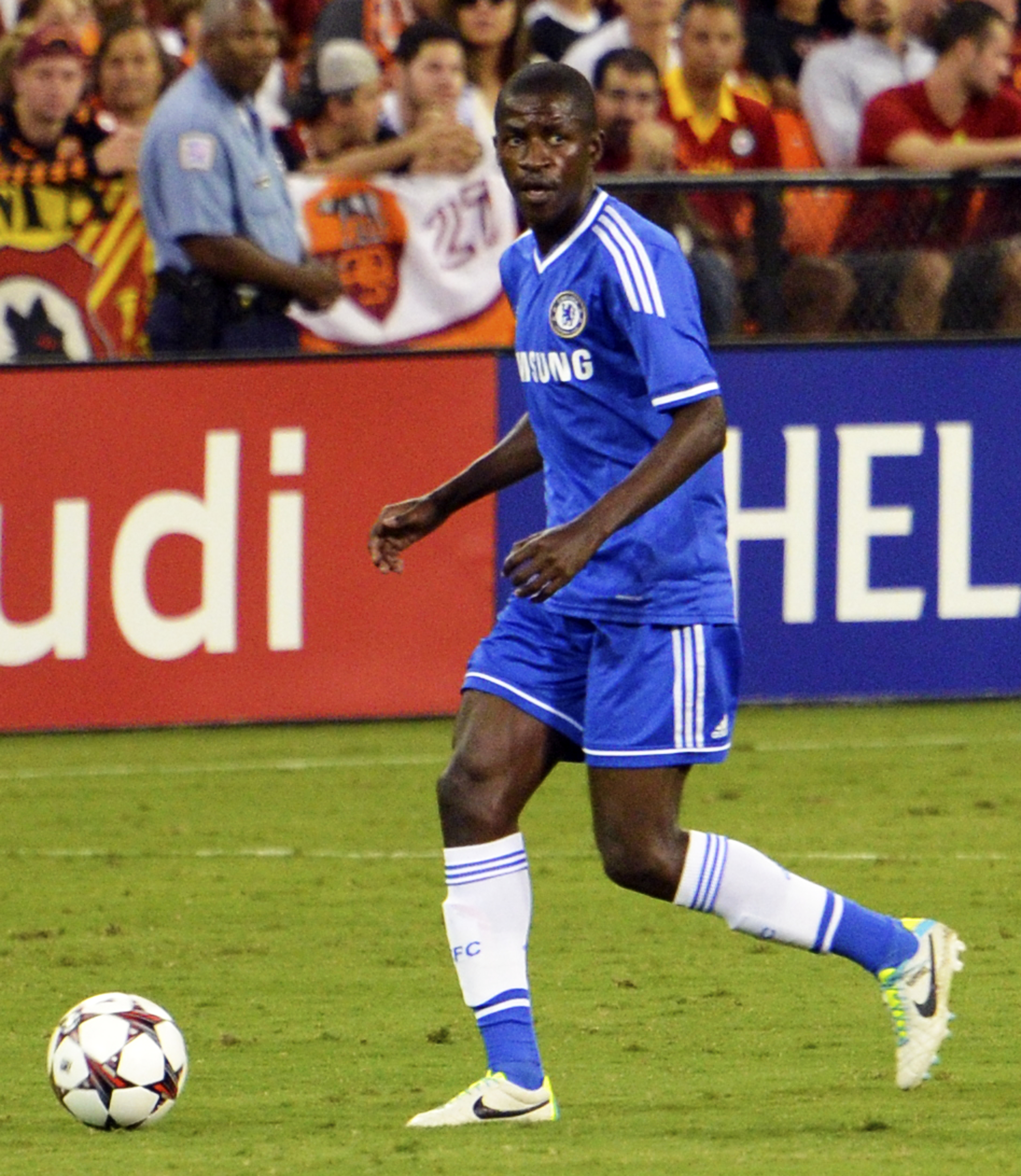 Ramires dribbling down the right side of the field of RFK Stadium in Washington D.C. Chelsea FC played a friendly against A.S. Roma prior to the beginning of the Premier League season. August 2013